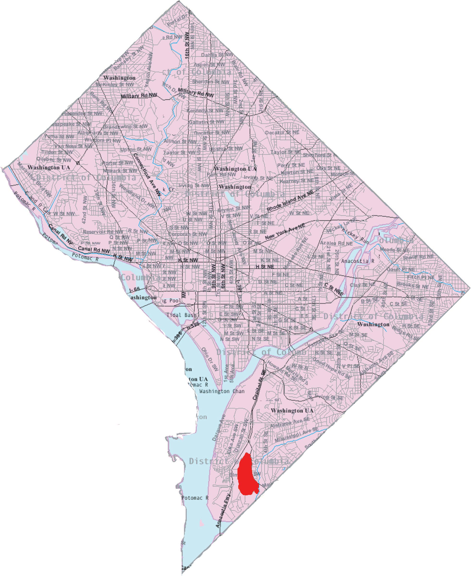 This image is a modified version of a self-generated reference map from the U.S. Census Bureau's American Factfinder at by Wikipedia user Msclguru.